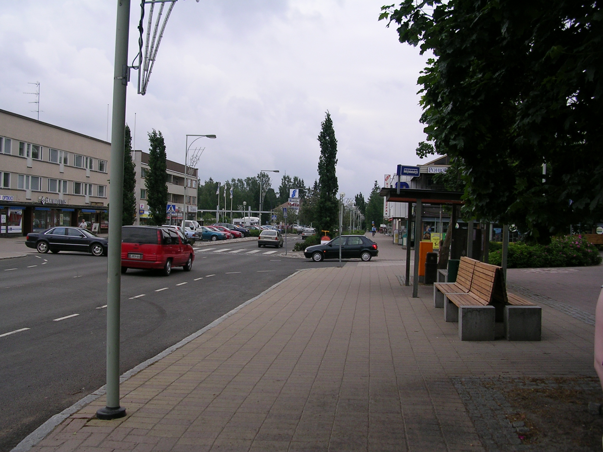 Keuruuntie, the main street of Keuruu, Finland at summer